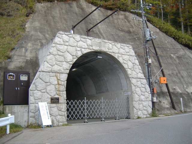 Osutakayama Tunnel seen from Nagano Prefecture